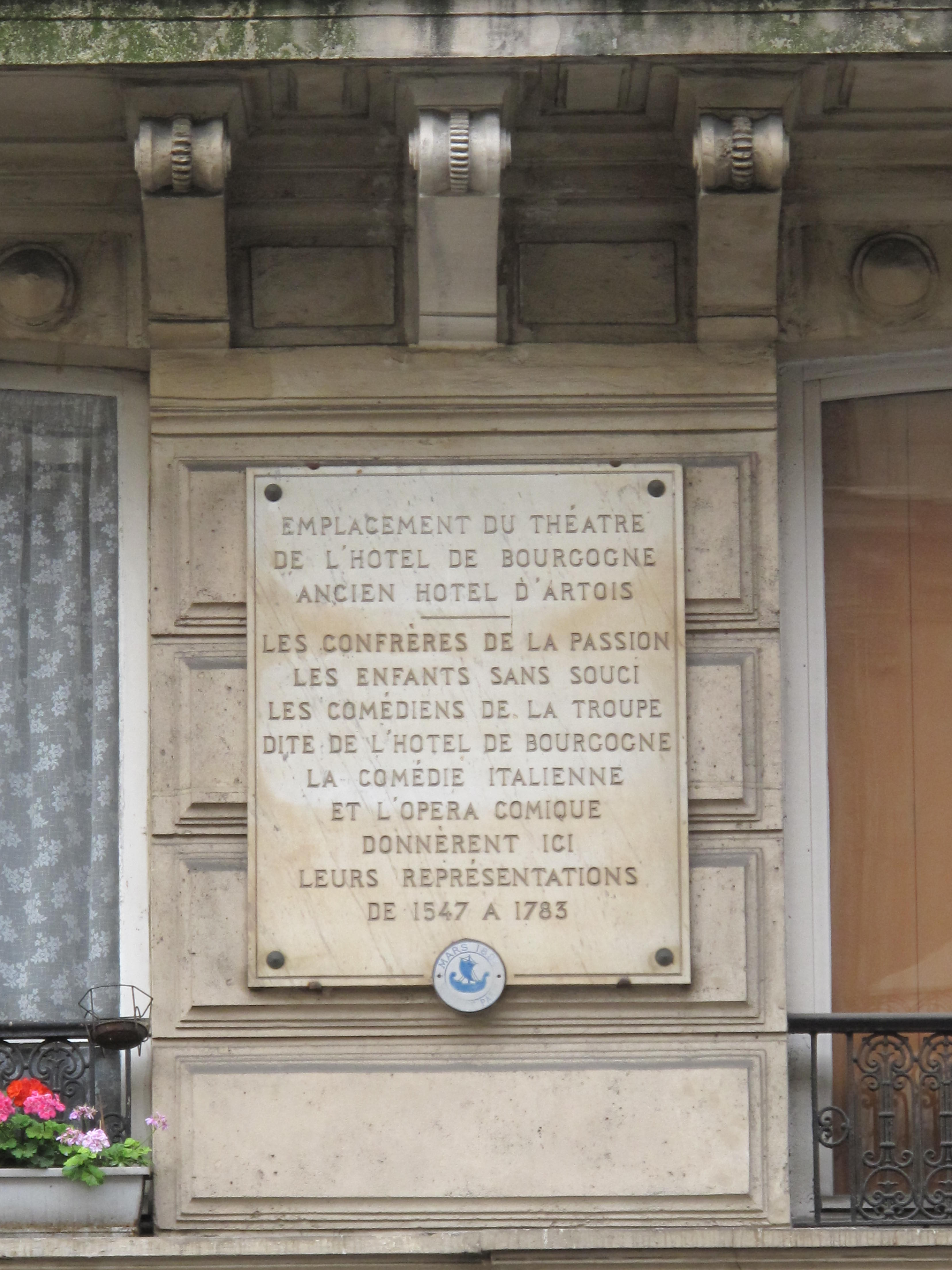 Plaque in the place of the former hôtel de Bourgogne : 29 rue Étienne Marcel, Paris 1st arr.